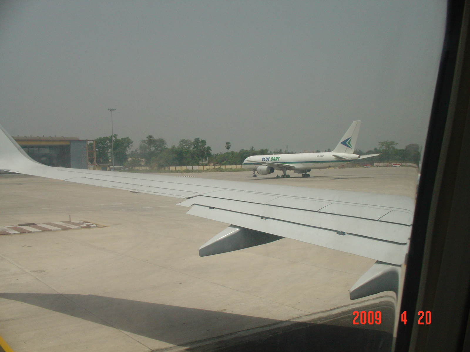 A Blue Dart Aviation Boeing 757 on Tarmac At Netaji Subhash Chandra Bose International Airport